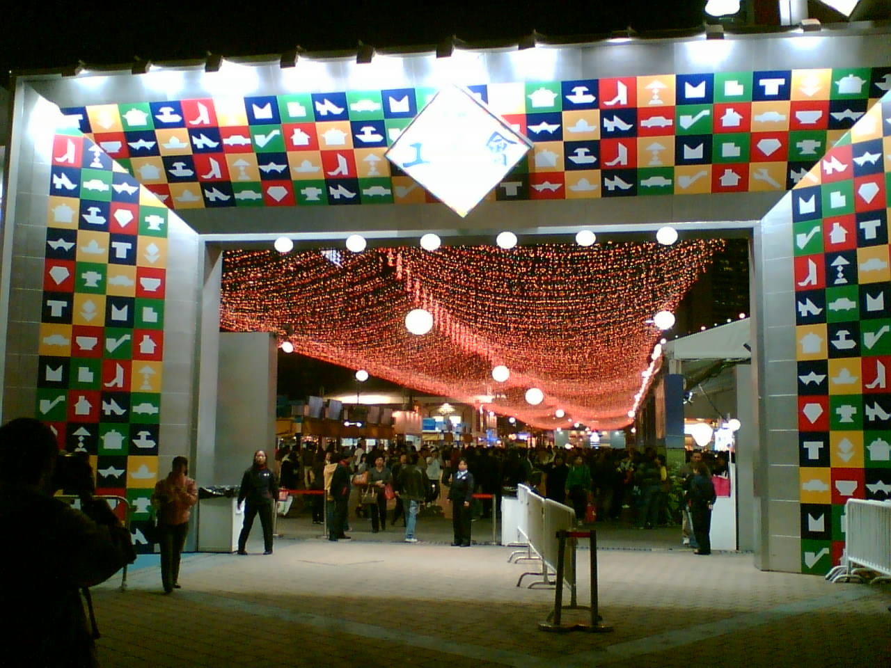 Photo of 41st Hong Kong Brands and Products Expo